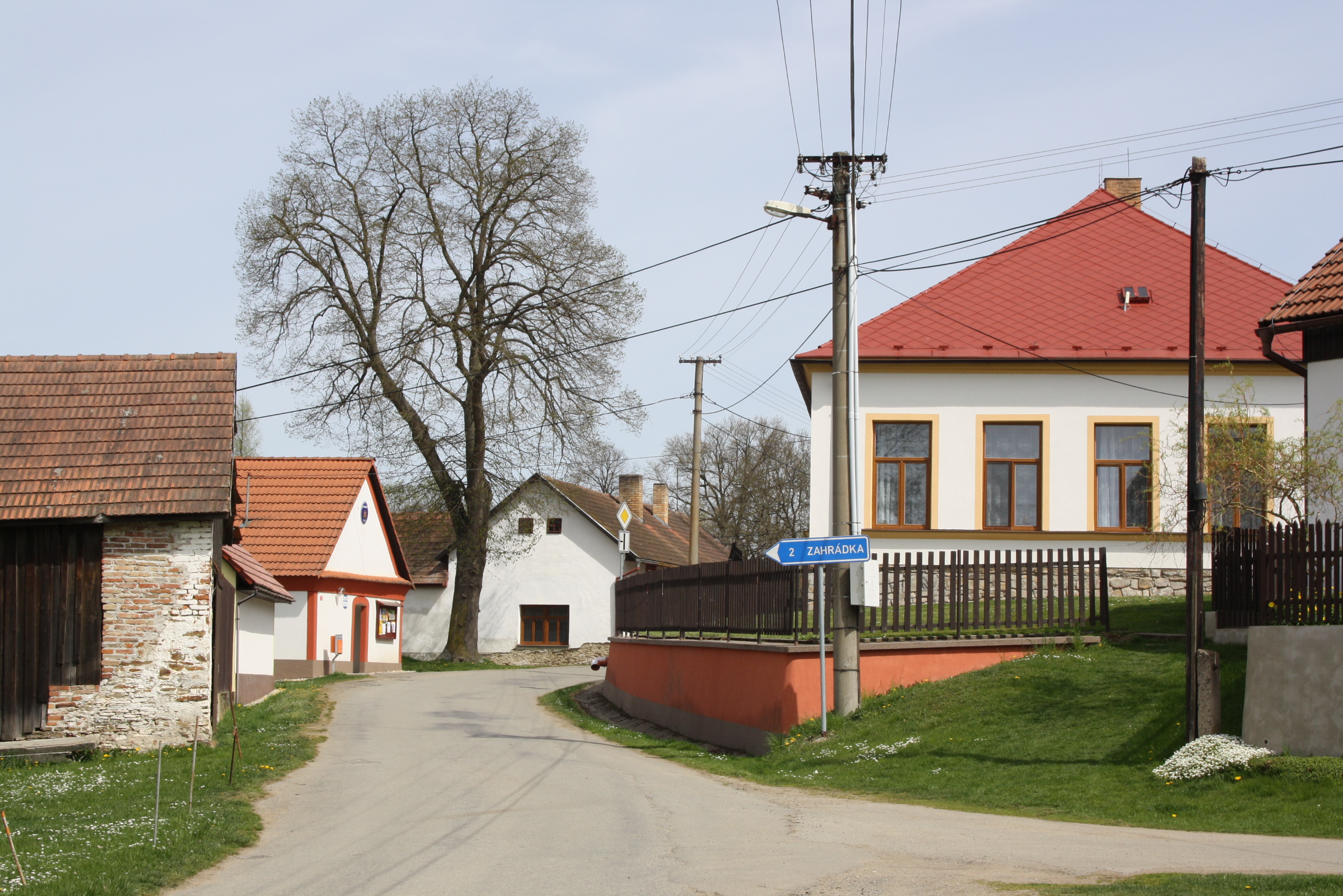 Litohošť, Pelhřimov District, Czech Republic